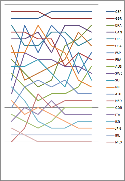 1976 FD Daily standings during the Olympic sailing event